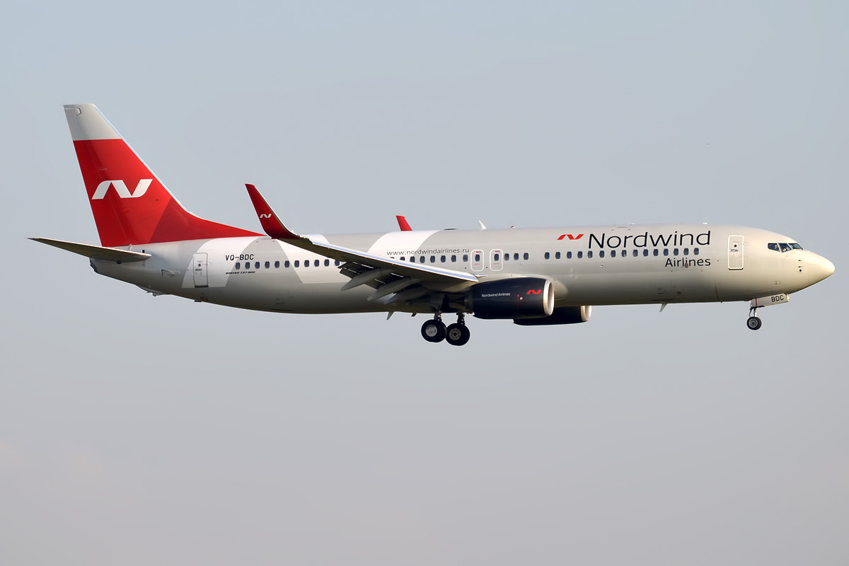 Nordwind Airlines Boeing 737-800 on final approach to Sheremetyevo International Airport